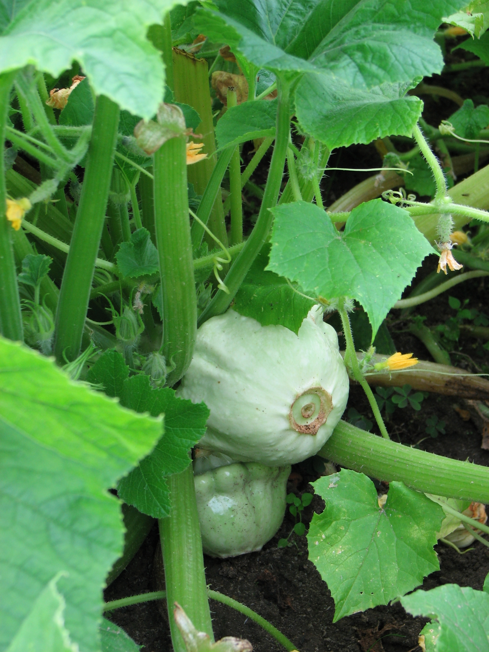 patison disco, Pattypan squash, Patisson